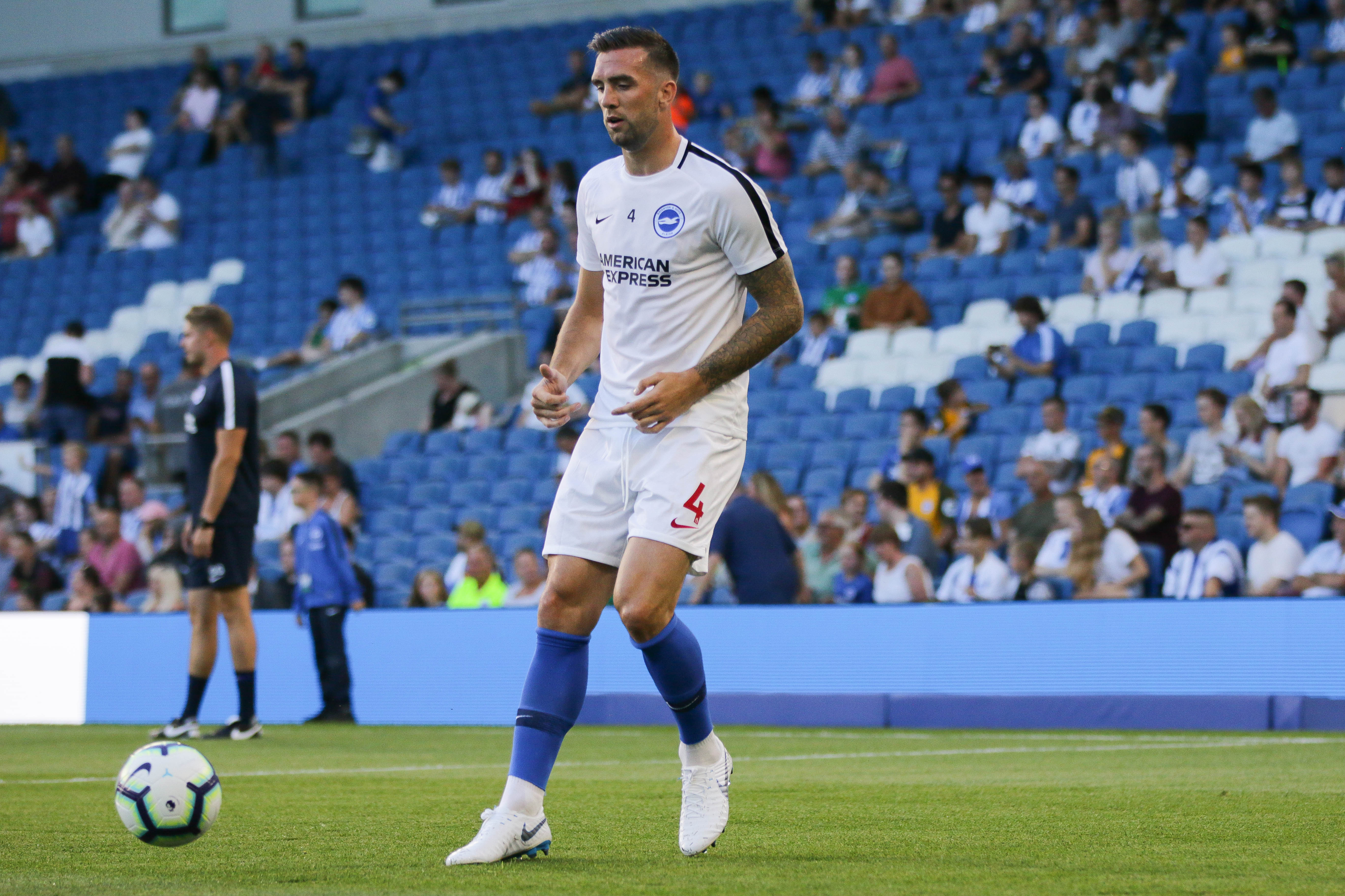 BHA v FC Nantes pre season 03 08 2018-125.jpg